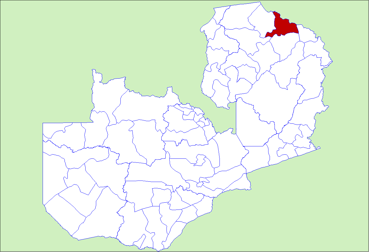 District locator in Zambia